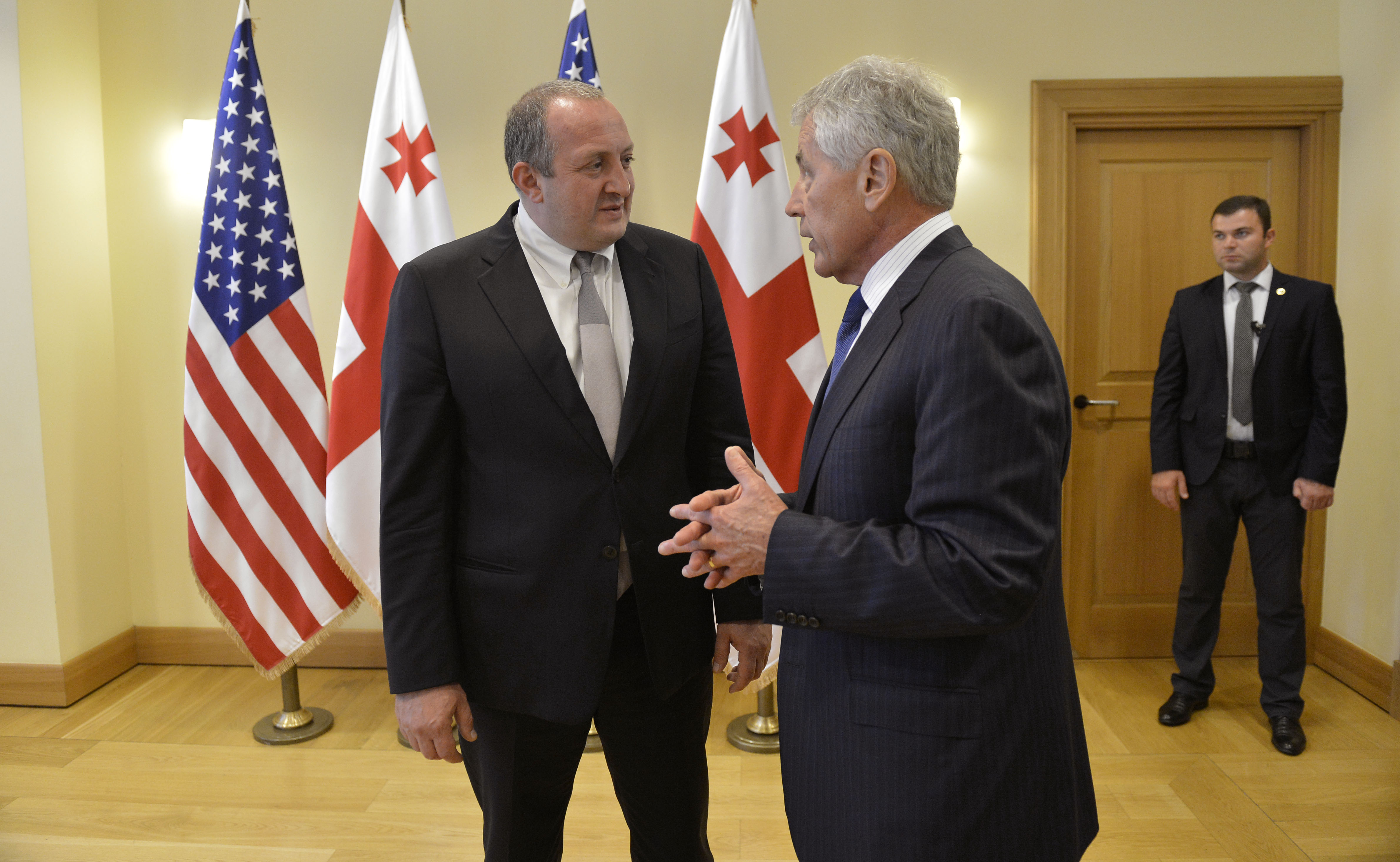 Secretary of defense Chuck Hagel caps off a meeting with President of Georgia Giorgi Margvelashvili at the presidential palace in Tbilisi, Georgia, September 7, 2014. Hagel and Margvelashvili discussed the enduring relationship between the two countries and safeguarding against regional instabilities. DoD Photo by Glenn Fawcett (Released)